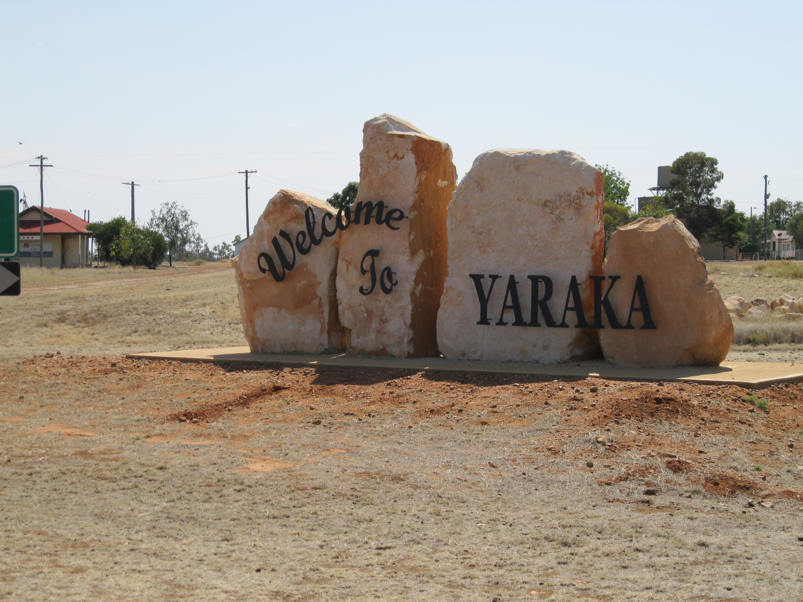 Welcome to Yaraka sign, on the western side of the town